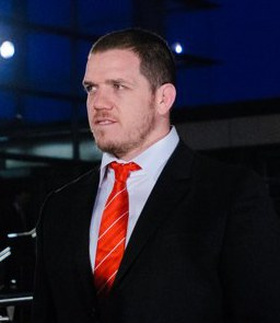 Paul James, Wales Grand Slam Celebration, Senedd 19 March 2012